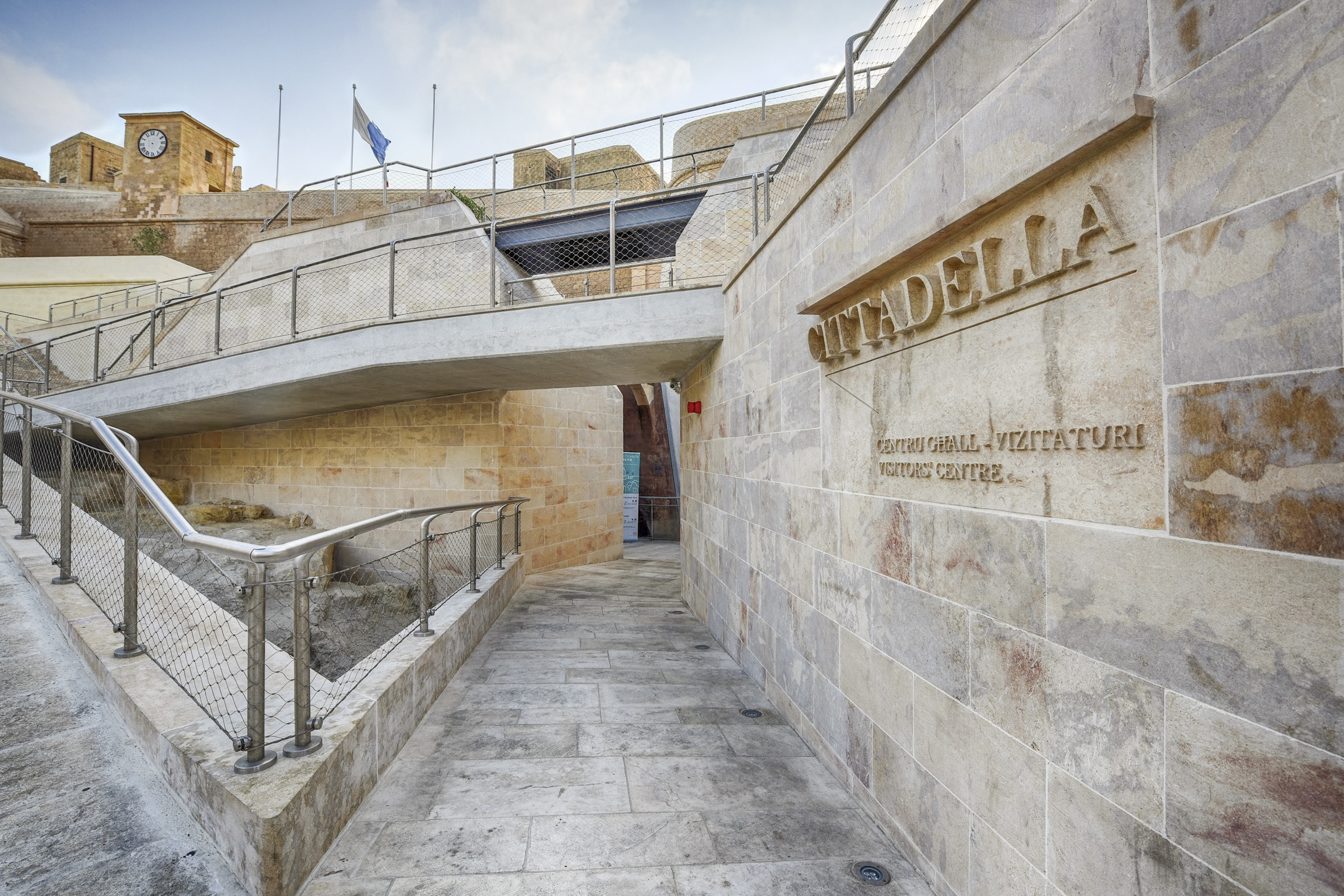 Citadel This media is about Maltese cultural property with inventory number 00003.